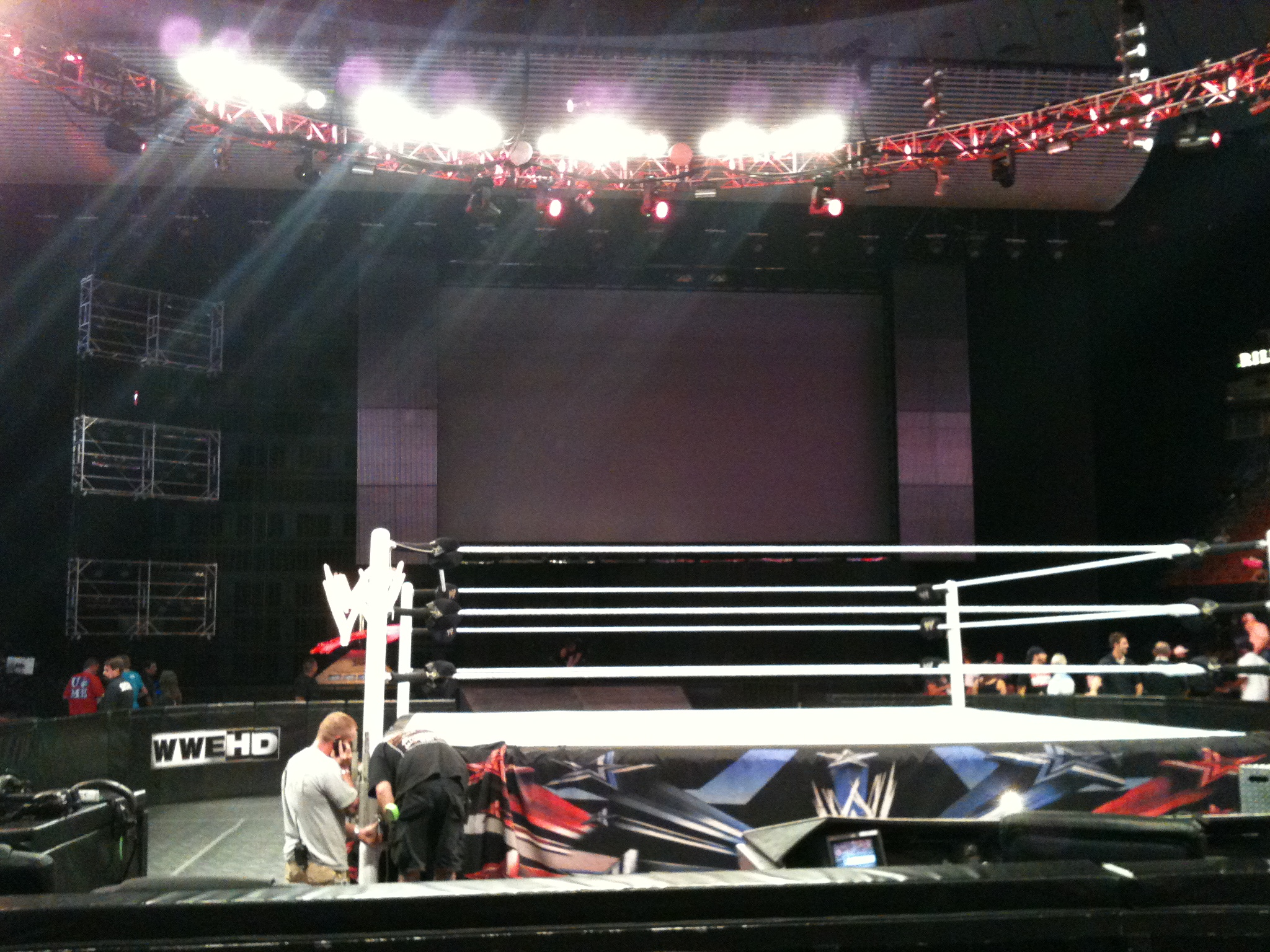 Picture of wwe set